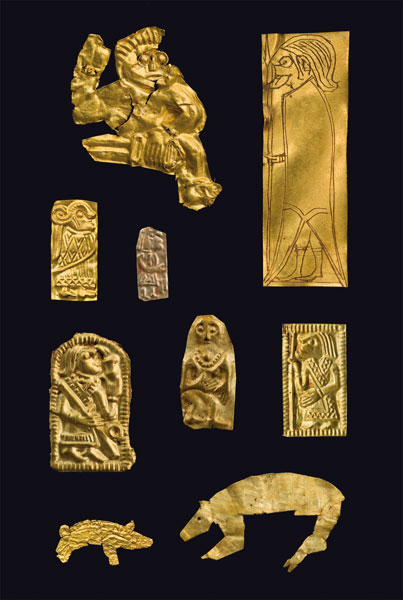 A few of nearly 2500 Gold foil images from late iron age (6-7th century), found on the settelment Sorte Muld on the danish island Bornholm.